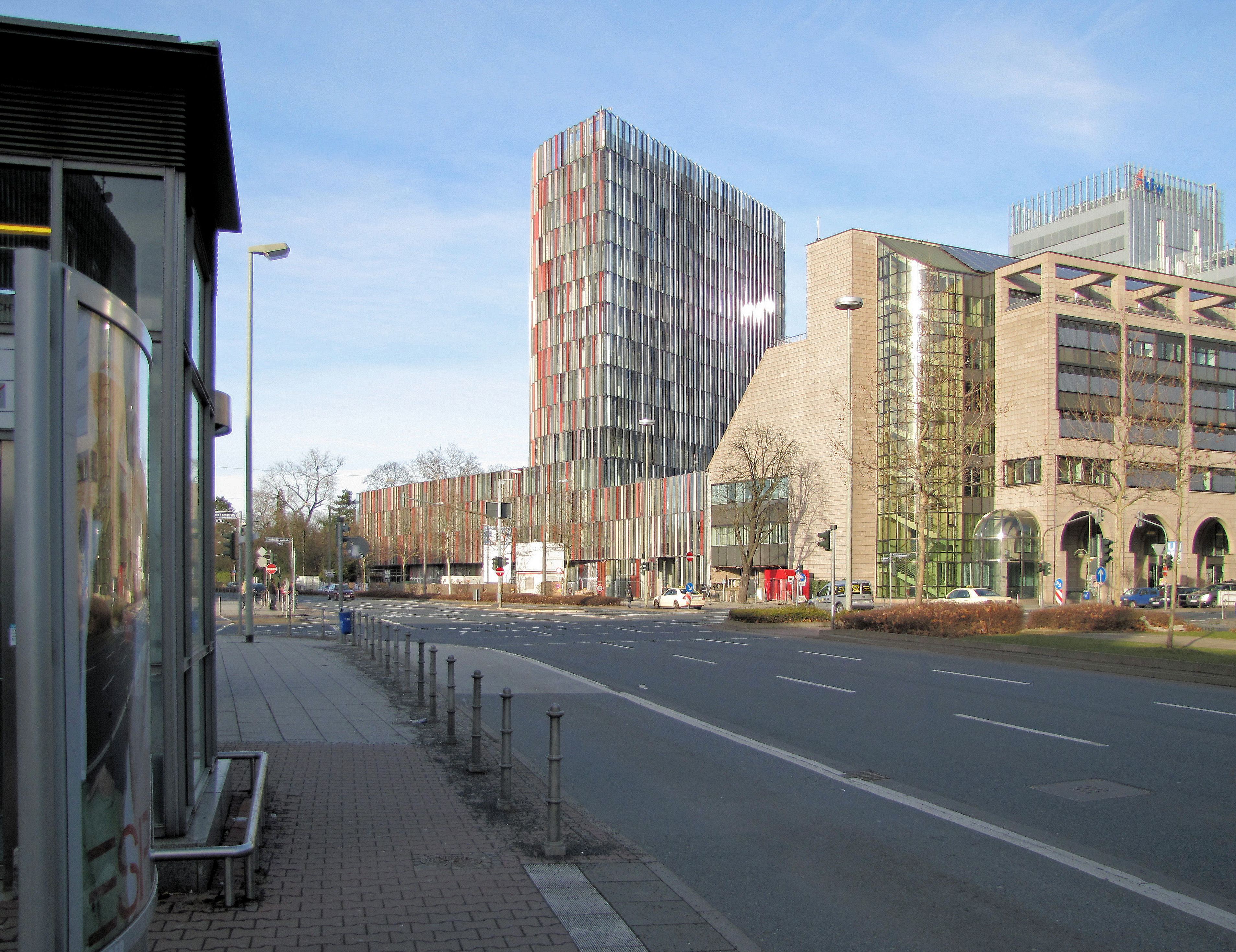 The beginning of "Zeppelinallee" at intersection with "Bockenheimer Landstrasse" (view from "Senckenberg-Anlage") in Frankfurt am Main, Germany.